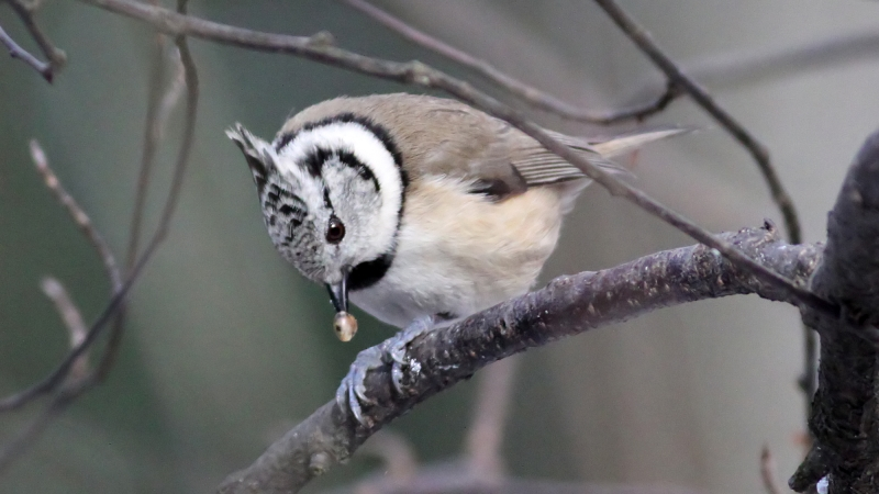 Crested Tit (Lophophanes cristatus)